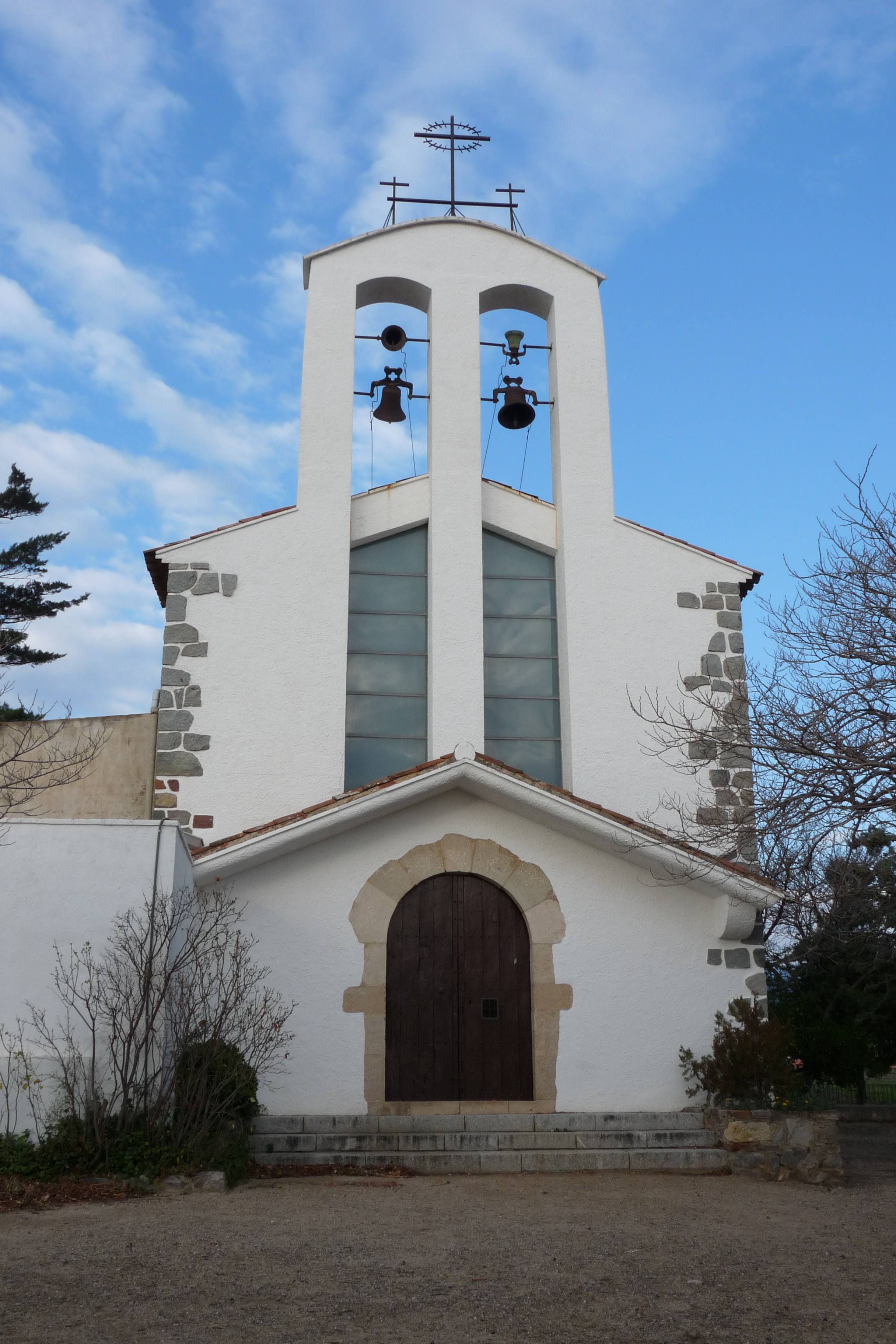 Sant Antoni's hermitage. Maspujols